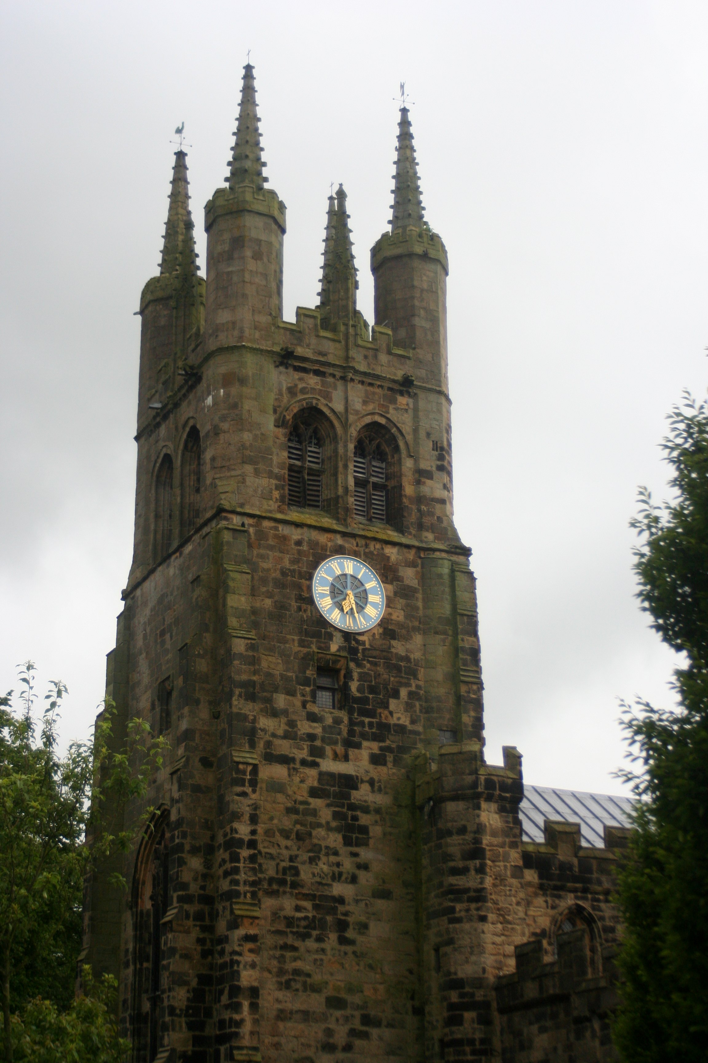 St John the Baptist parish church in Tideswell, Derbyshire, England; known as "The Cathedral of the Peak".